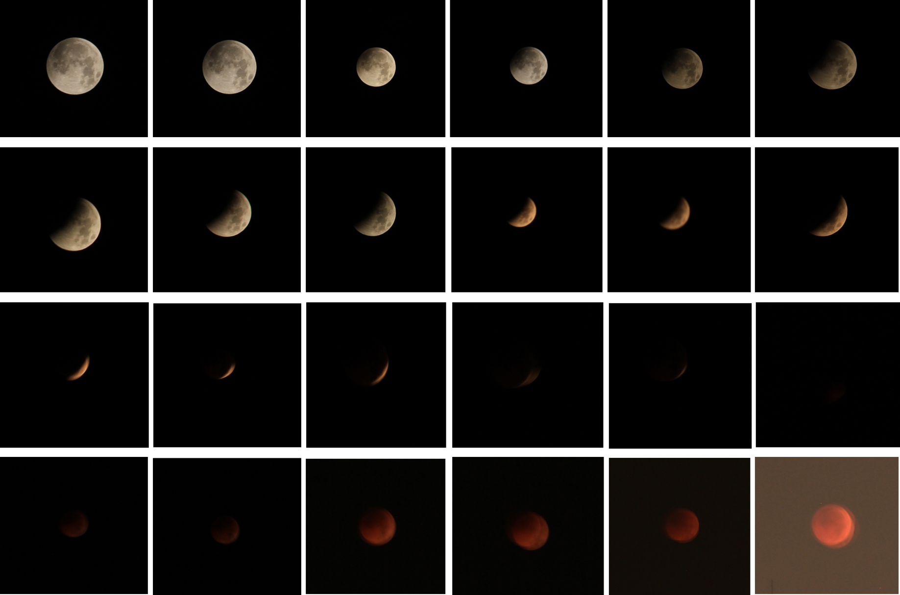 Photos of Lunar eclipse in Jul.28, 2018, taken in Shaoxing, Zhejiang Province, China.